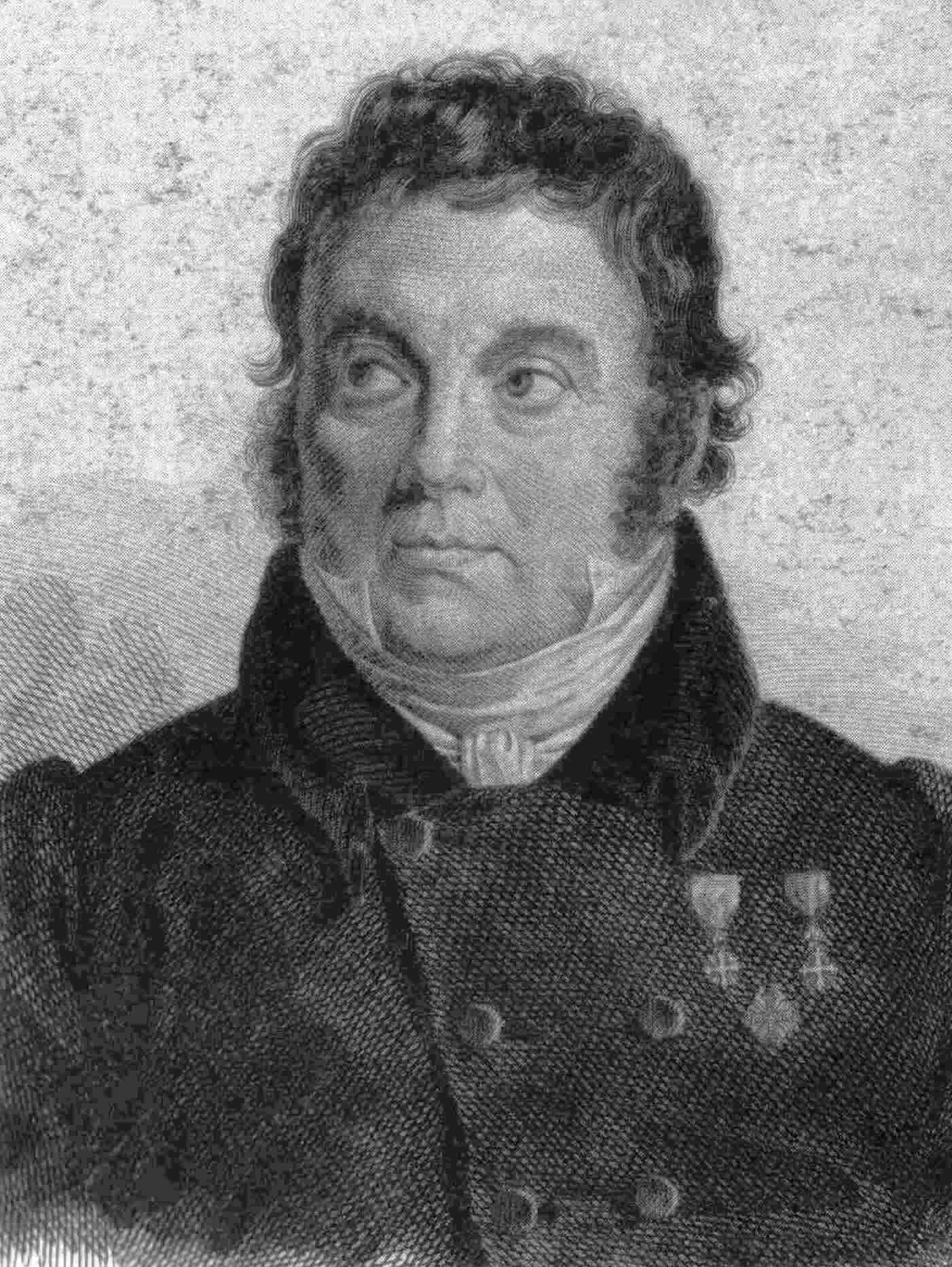 Antonio Cocconcelli (1761-1846), Italian civil engineer